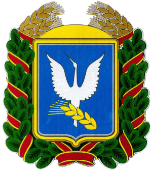 Coats of arms of Zacepylivskyj raions